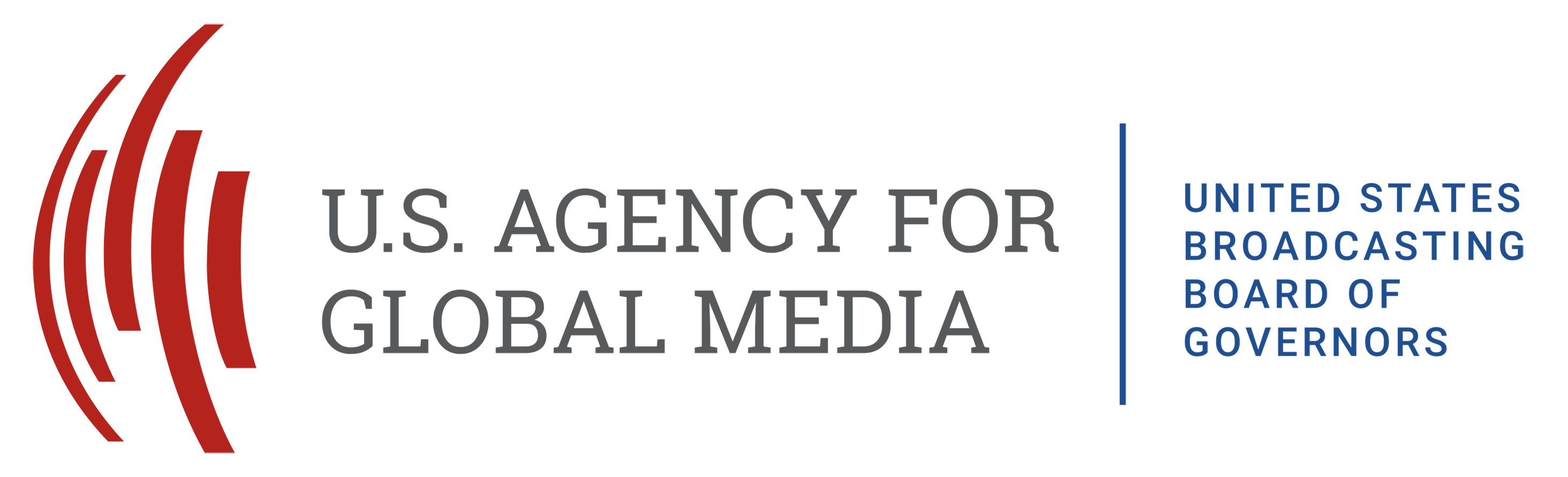 The new logo of the U.S. Agency for Global Media which was formerly the Broadcasting Board of Governors.